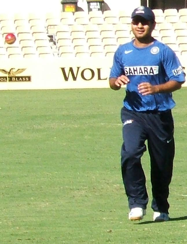 Piyush Chawla fielding at Adelaide Oval